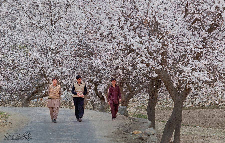 Nagar Valley Gilgit Baltistan